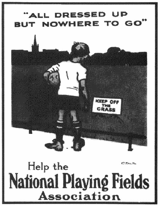 Advertisement for the National Playing Fields Association